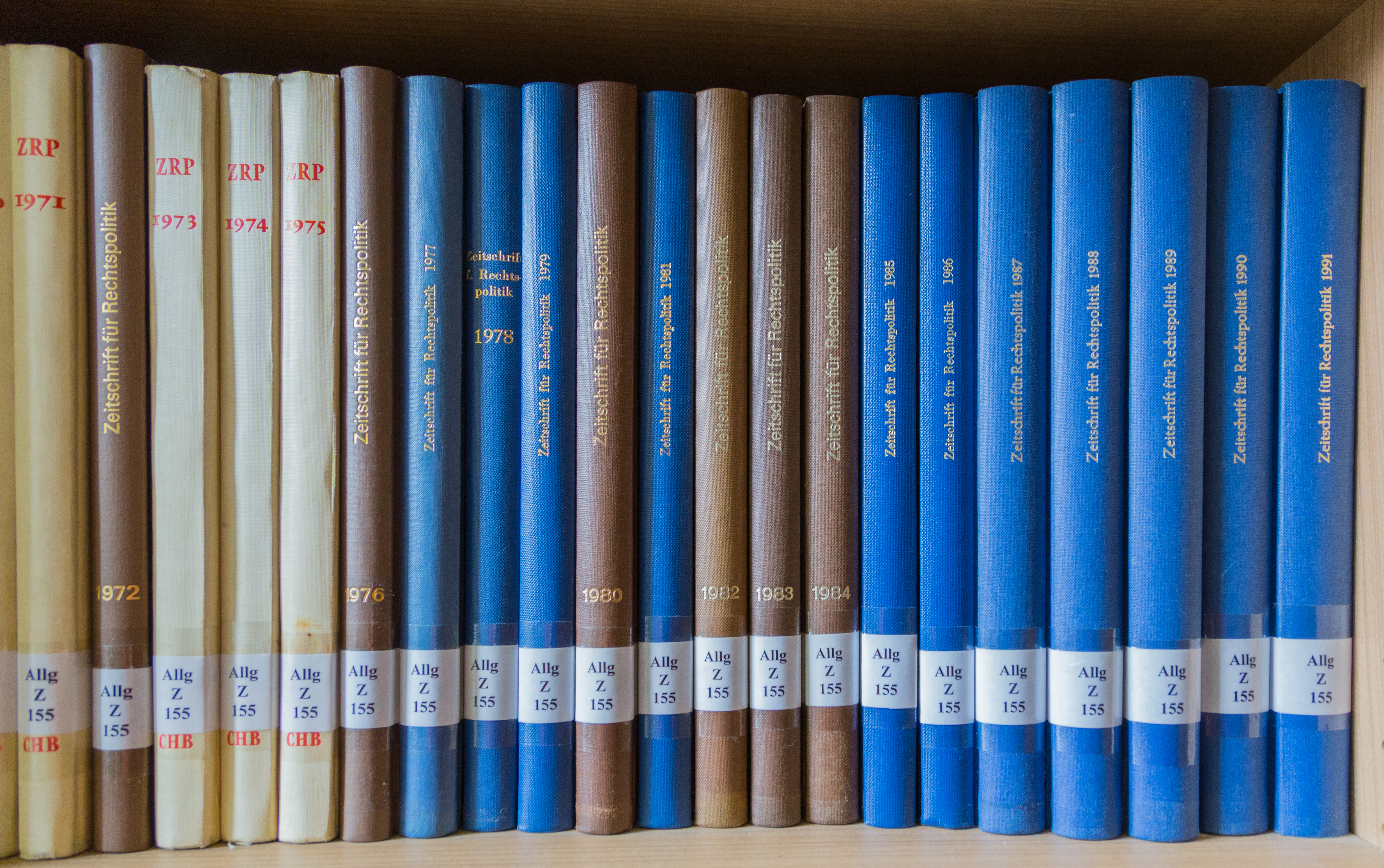 Bound volumes of the German political law journal Zeitschrift für Rechtspolitik in the Civil Law Library (Gemeinsame Bibliothek der Zivilrechtlichen Institute – Zivilrechtliche Bibliothek/ZRB) at the Juridicum, 14-16 University Street (Universitätsstraße 14-16) in the city centre of Münster, North Rhine-Westphalia, Germany. The ZRB is one of the several libraries of the University of Münster (Westfälische Wilhelms-Universität Münster). Picture taken with permission by the Juridicum/ZRB staff.